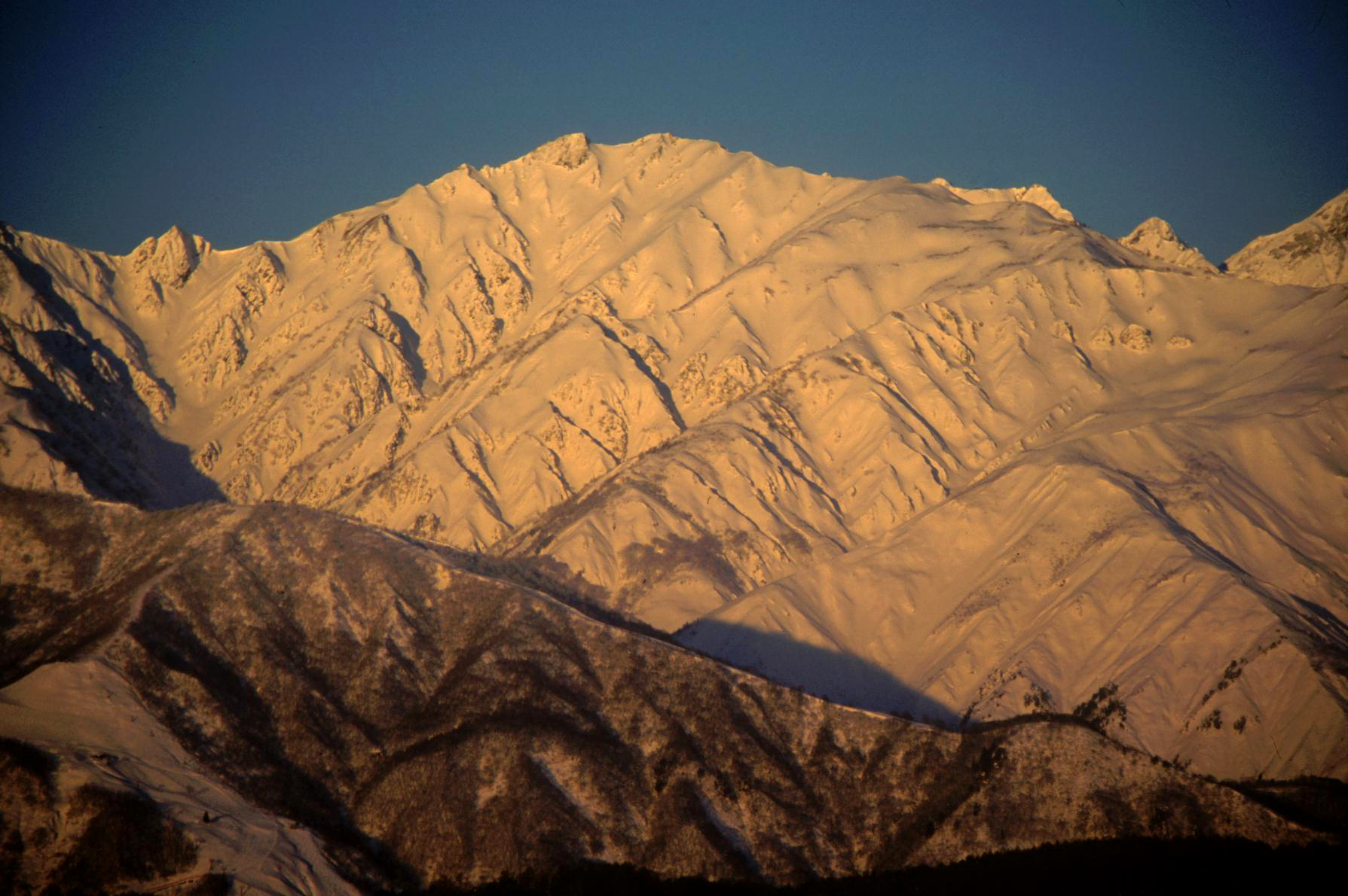 Mount Karamatsu seen from Kamishiro, Hakuba, Nagano prefecture, Japan.